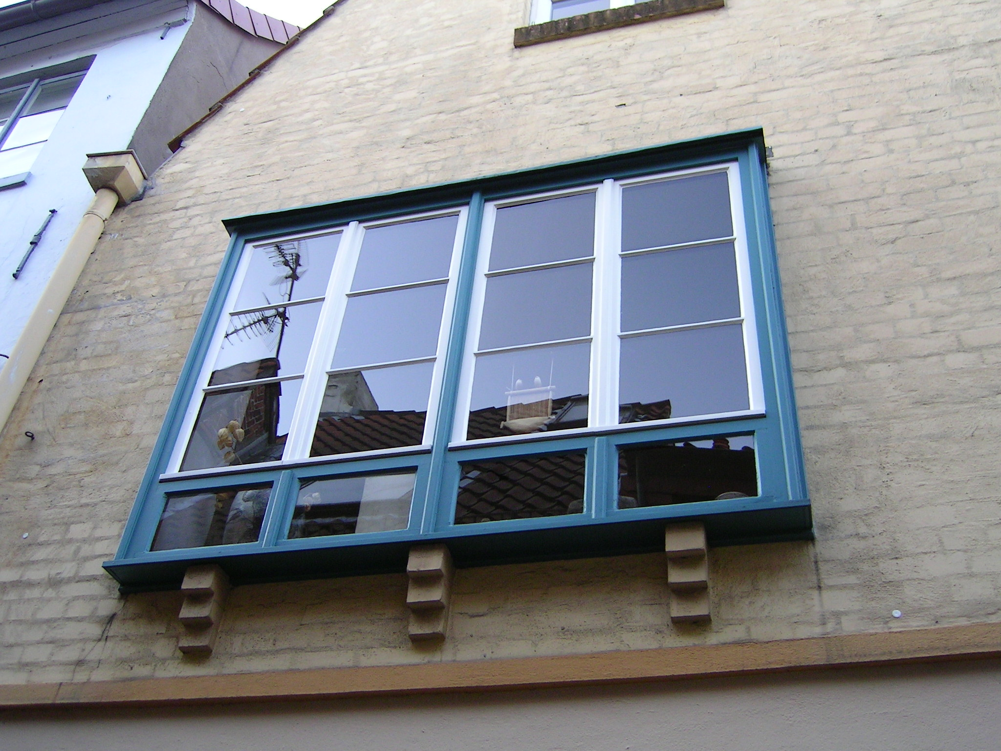 Houses from the 15th and 16th centuries along the narrow alleys in Bremen’s oldest surviving quarter